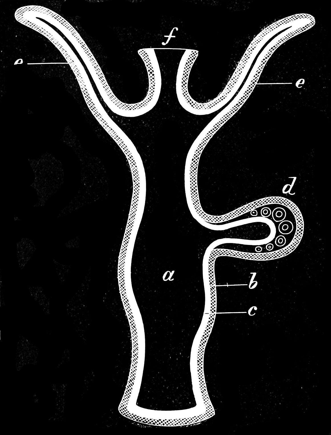 Diagram of a section of hydroid